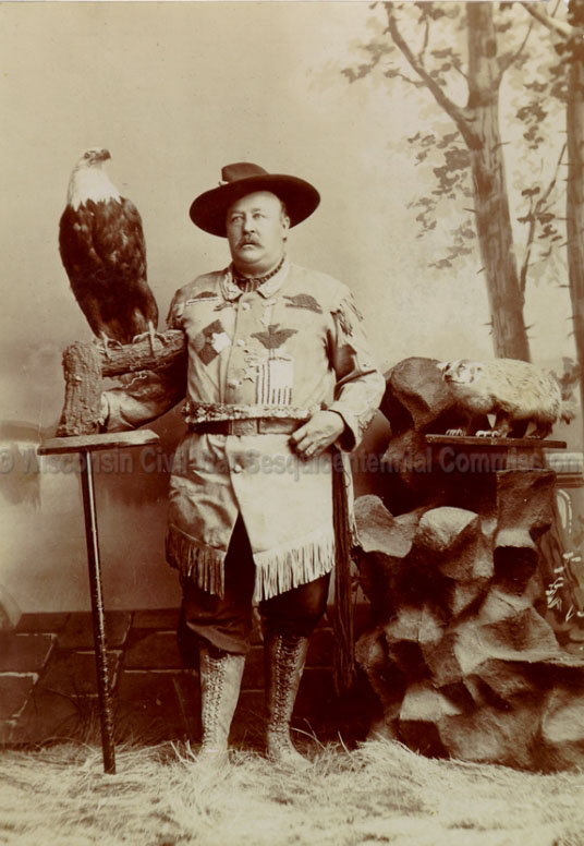 Image of Old Abe the War Eagle and her last Attendent, George Gillies.